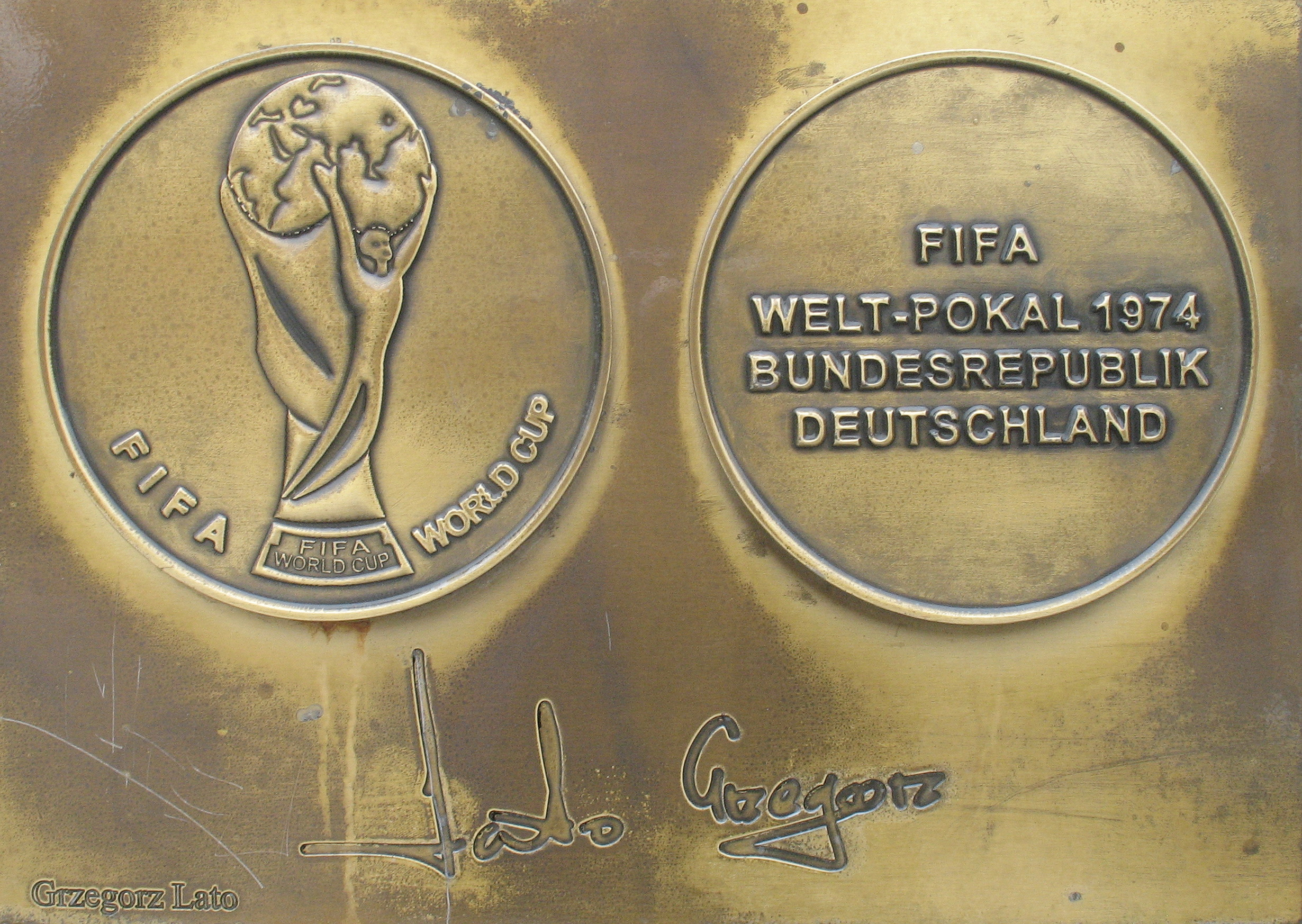 Grzegorz Lato medal & autograph in Avenue of Sport Stars Dziwnów